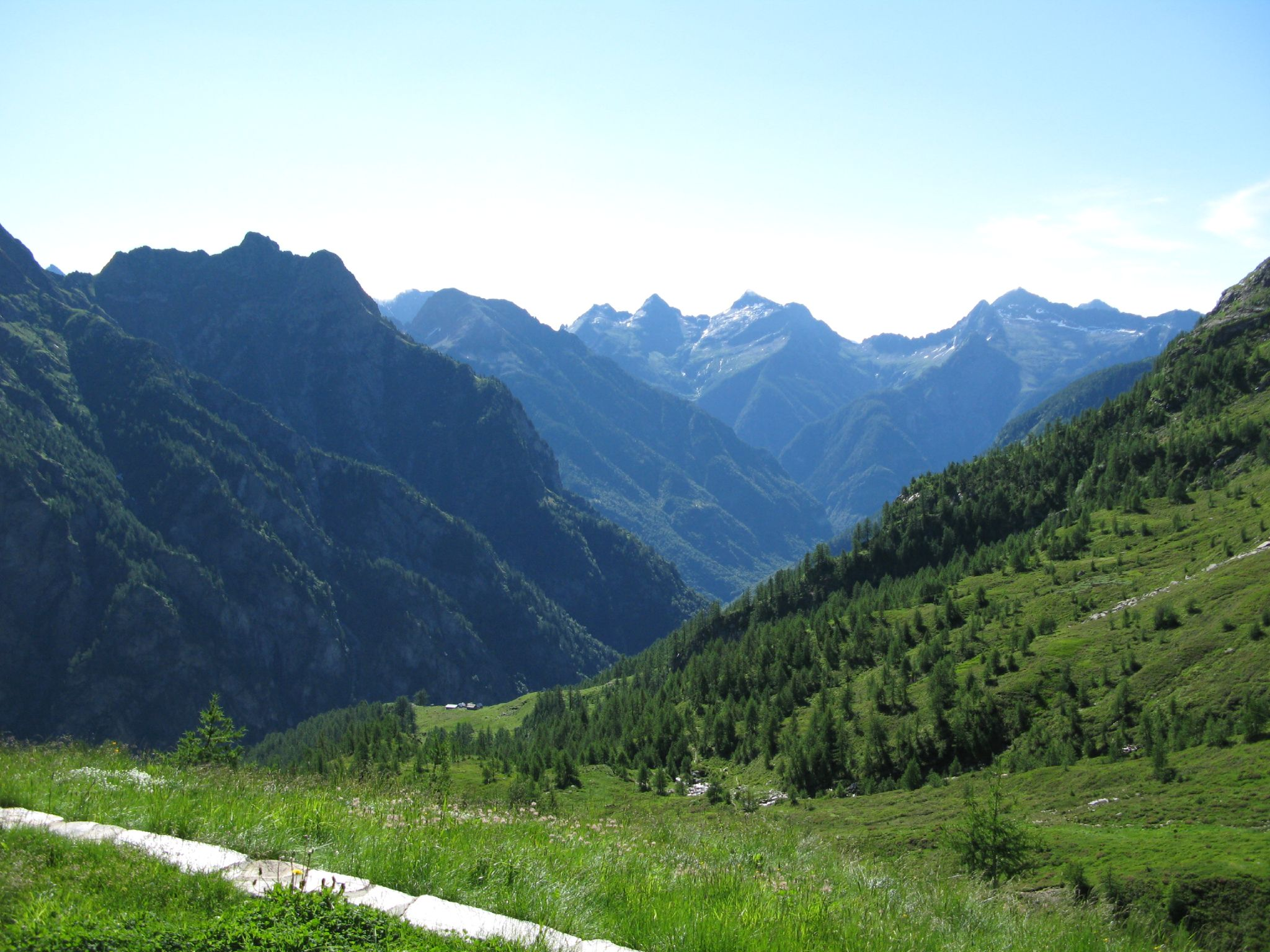 View over the Peccia valley, Lavizzara, Ticino, Switzerland